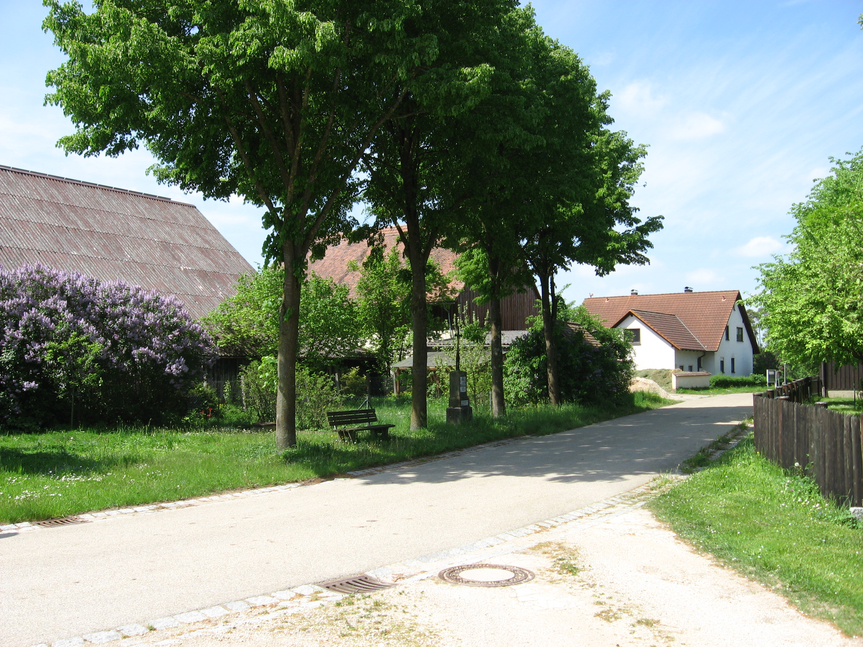 Eulenhof (part of Allersberg, Bavaria, Germany)